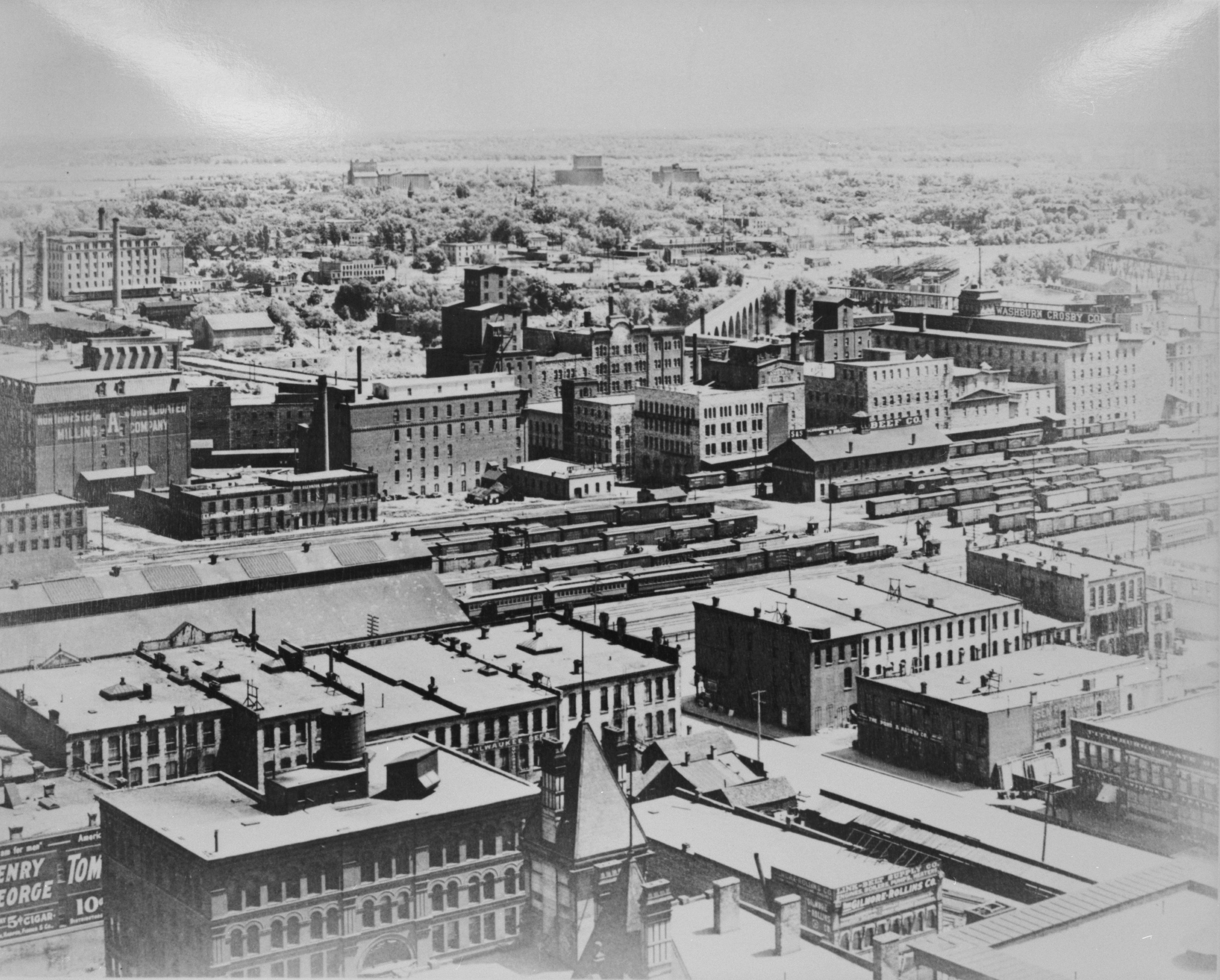 Photocopy of photograph of West Side Milling District, dated c. 1905; Minneapolis Boiler Works Building visible in the center, left-hand side of photograph (3.5 inches from lower edge of photograph, and 2 inches from left-hand edge); THREE-QUARTER VIEW OF WEST AND SOUTH SIDES; LOOKING NORTHEAST